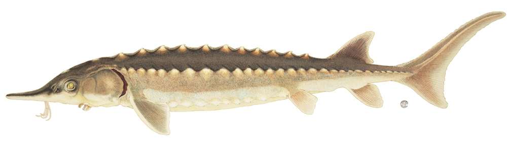 Atlantic Sturgeon (Acipenser oxyrhynchus oxyrhynchus)